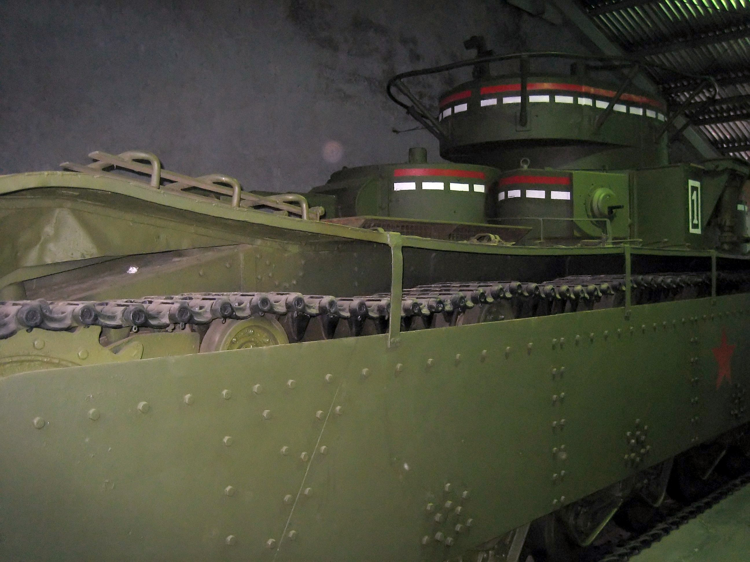 Soviet heavy tank T-35, displayed in Kubinka Tank Museum. Photo taken on December 6, 2006. Source: Photo by me, User:Saiga20K.